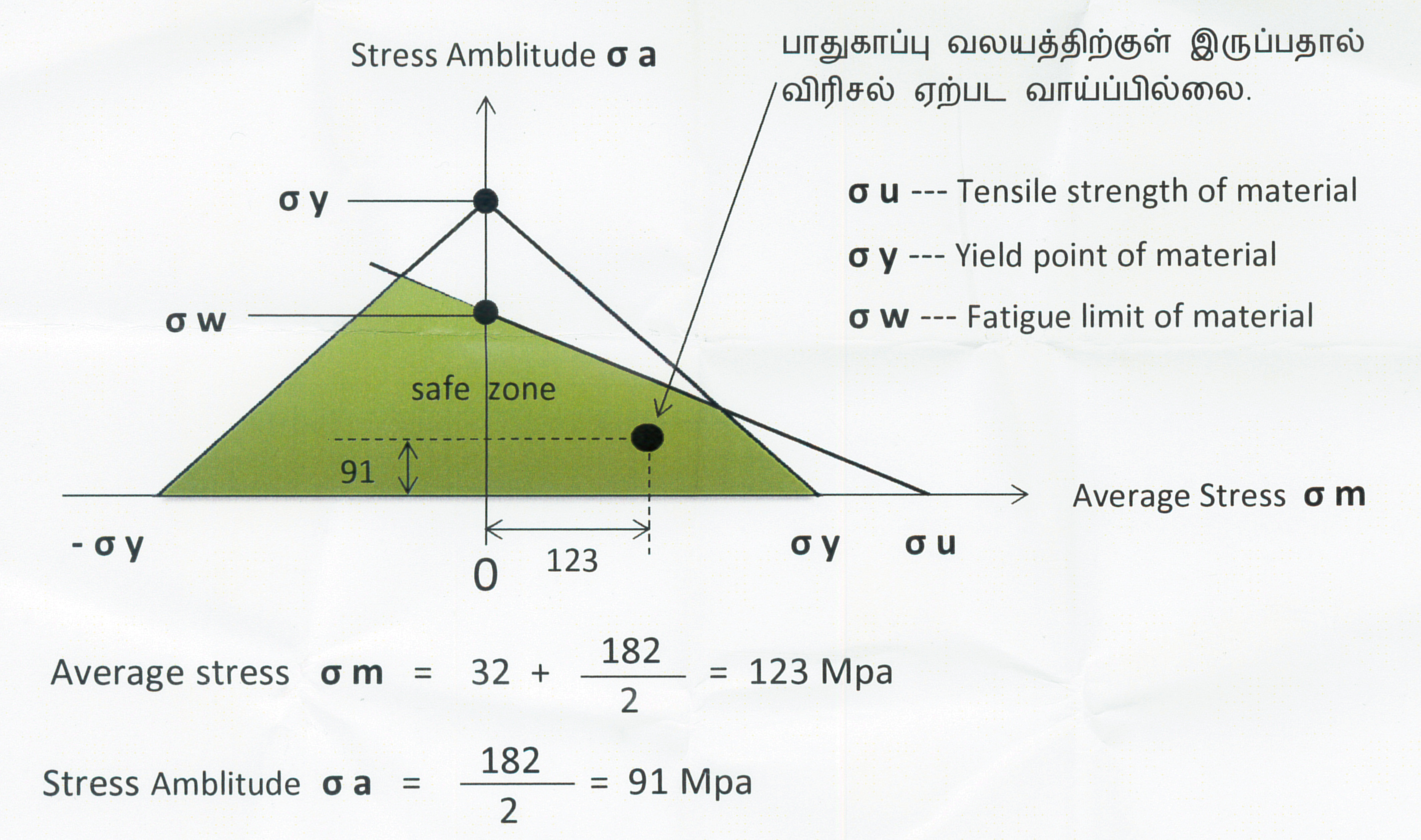 FATIGUE LIMIT DIAGRAM